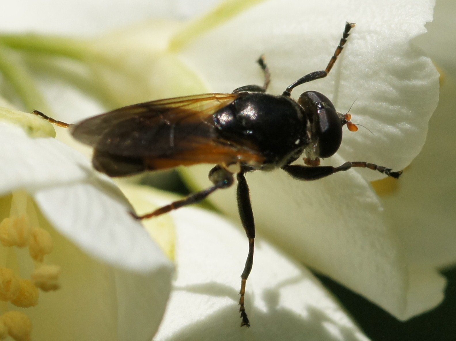 Myolepta dubia (male). Picture taken in Skåne, Sweden.